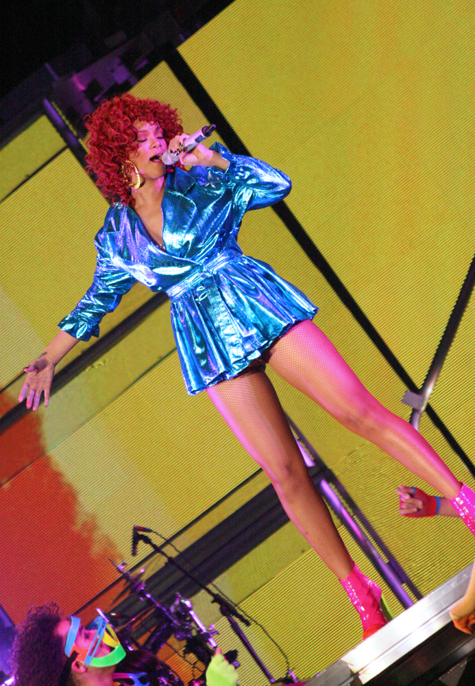 Rihanna Live at Target Center on her LOUD Tour.